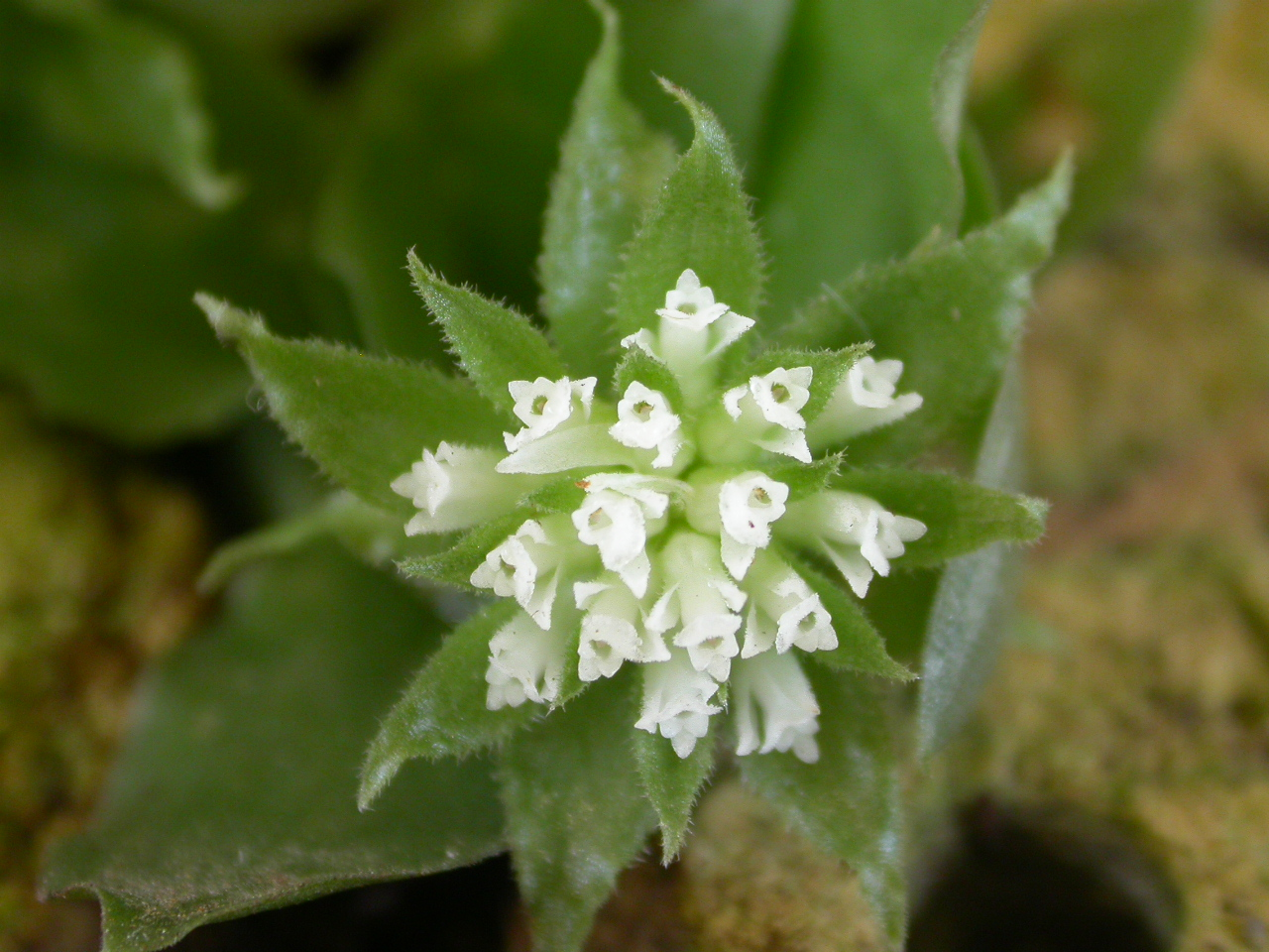 Eurystyles actinosophyla